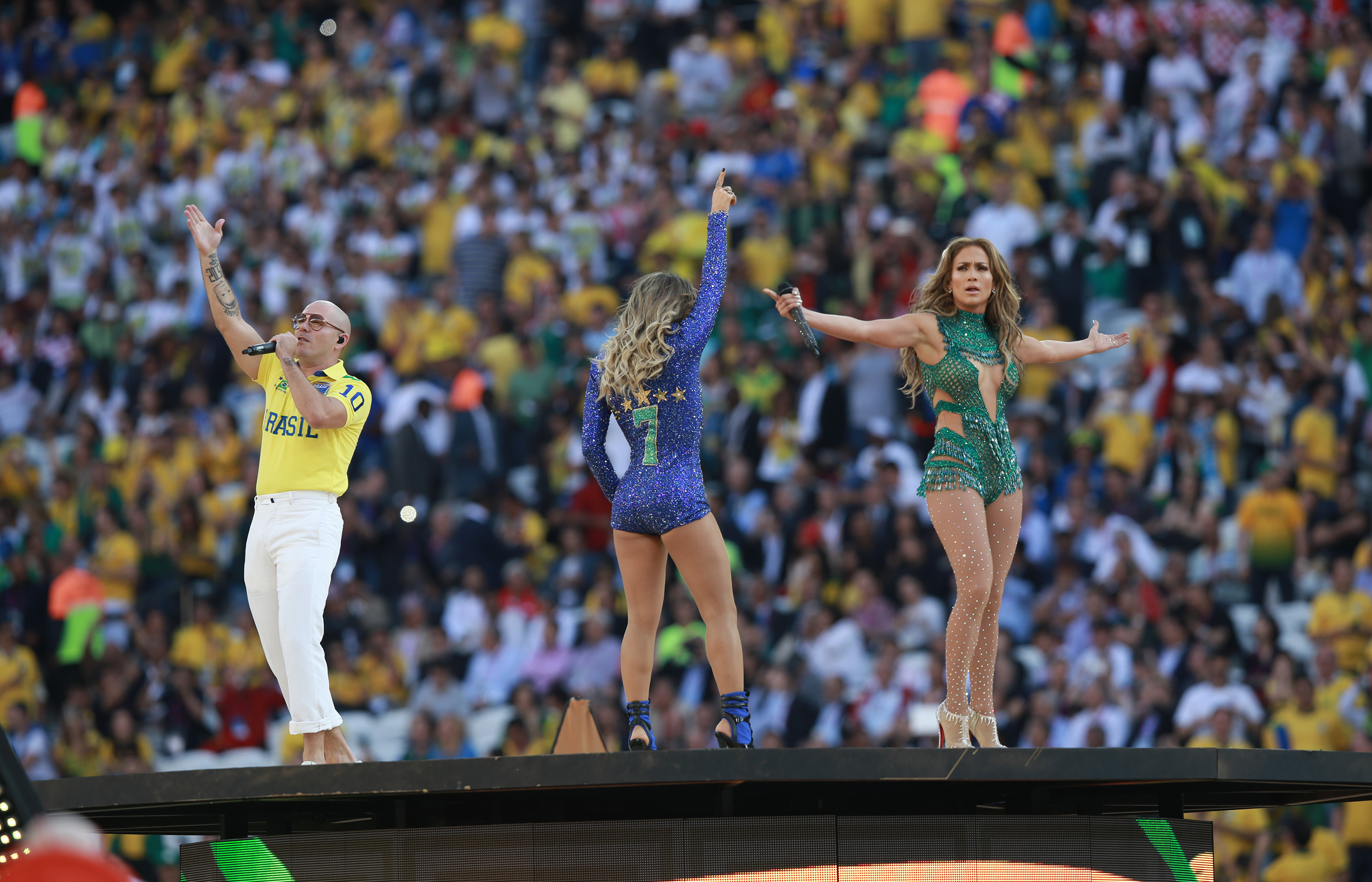 Pitbull, Claudia Leitte and Jennifer Lopez sang at the FIFA World Cup 2014 opening ceremony